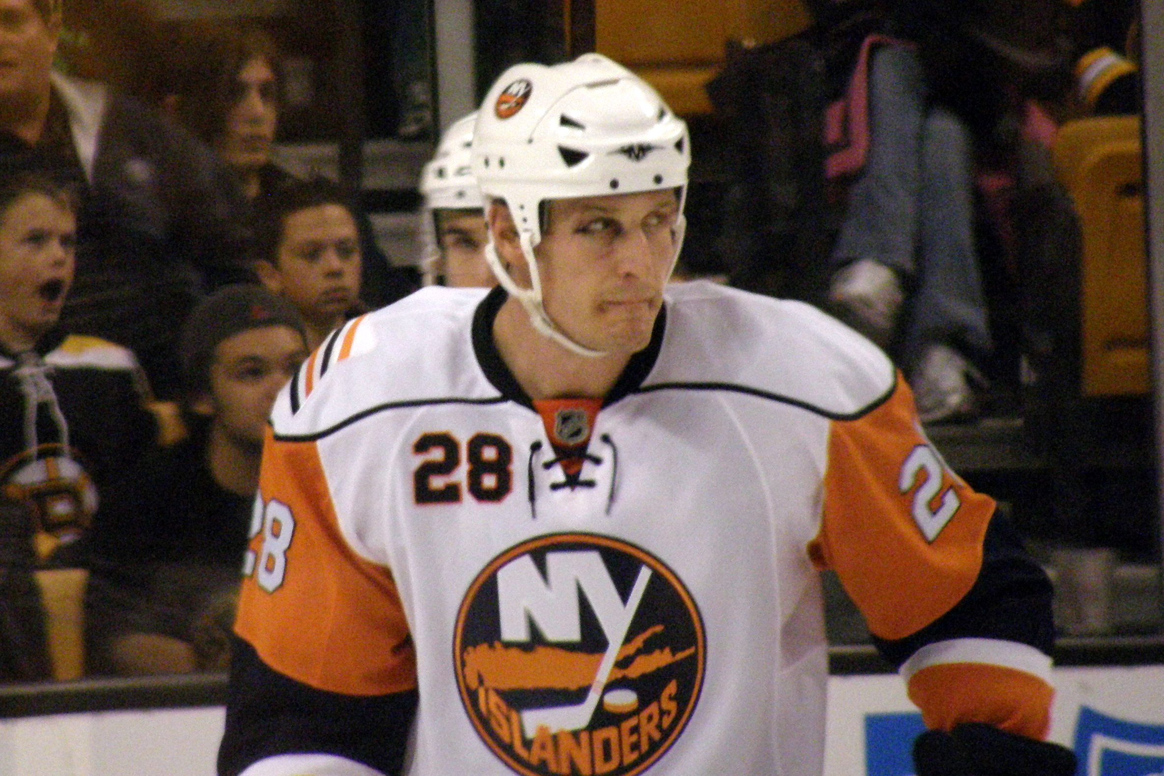 Tim Jackman, American ice hockey player